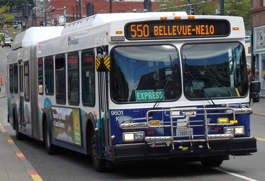 This photo was taken by Neil Hodges. The image is of a New Flyer DE60LF hybrid bus, purchased and run by King County Metro for Sound Transit.